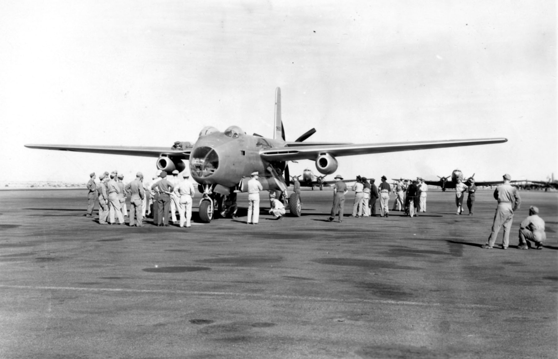 Douglas XB-42 front view